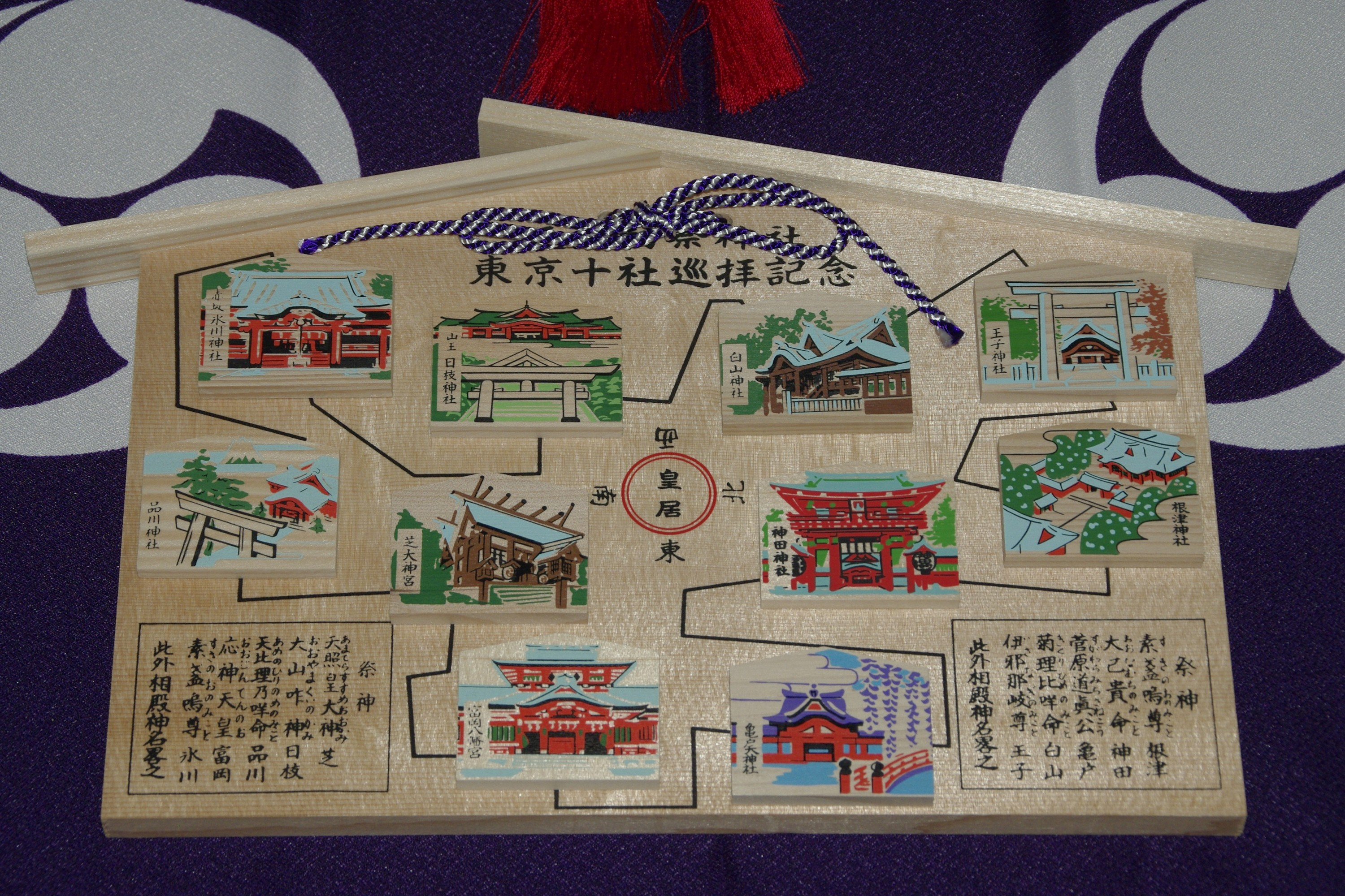 big Ema with mounted smaller Ema